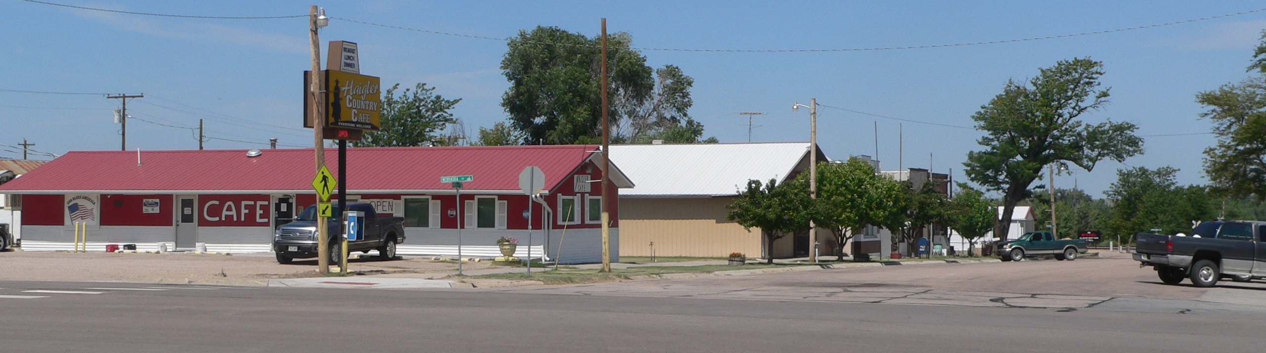 Downtown Haigler, Nebraska: northwest corner of Nebraska Avenue (U.S. Highway 34; runs east-west) and Porter Avenue (runs northward).